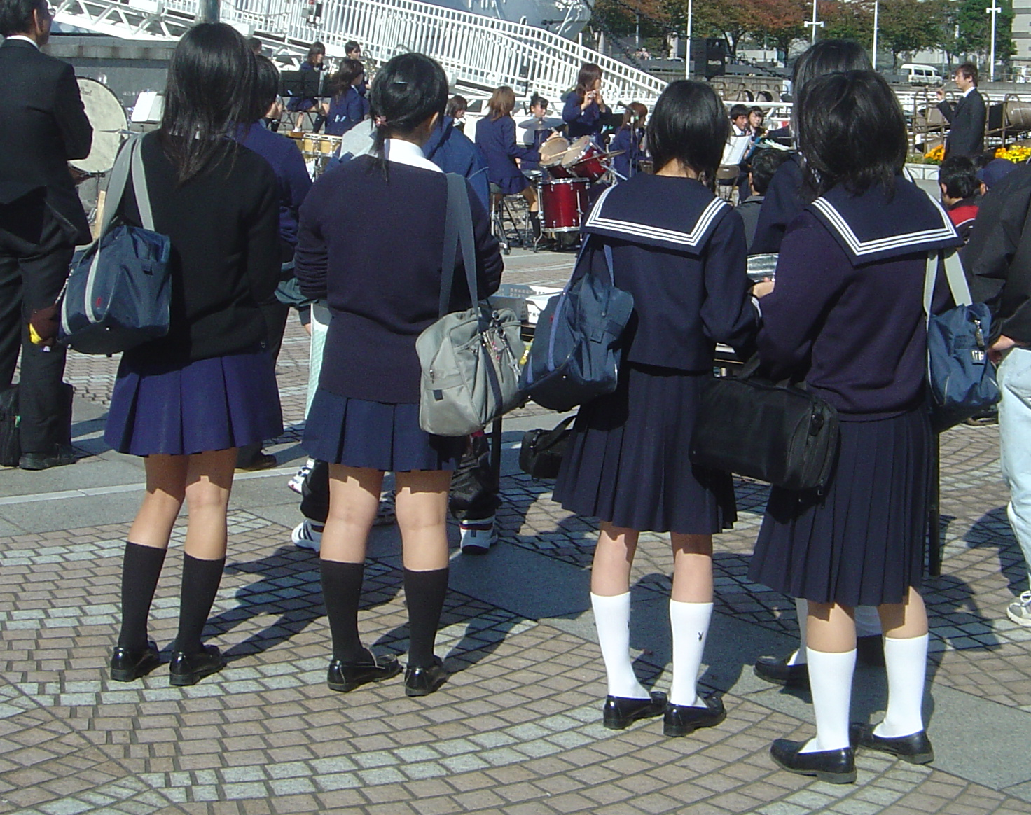 Japanese school uniform, Yohohama, Japan